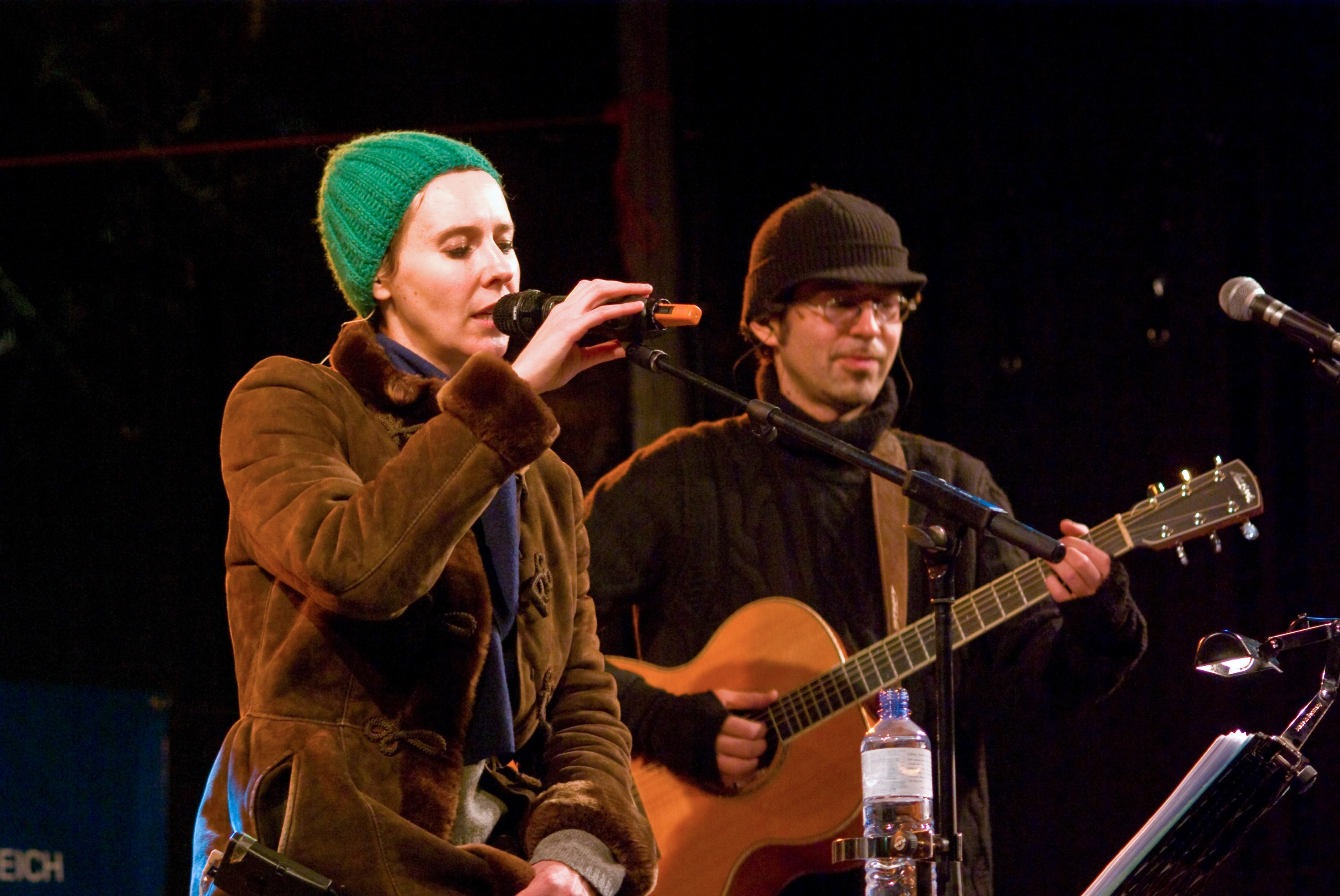 Austrian band Papermoon (left: Edina Thalhammer, right: Christof Straub). Concert at Christmas in the park in St. Pölten on 6 December 2008.